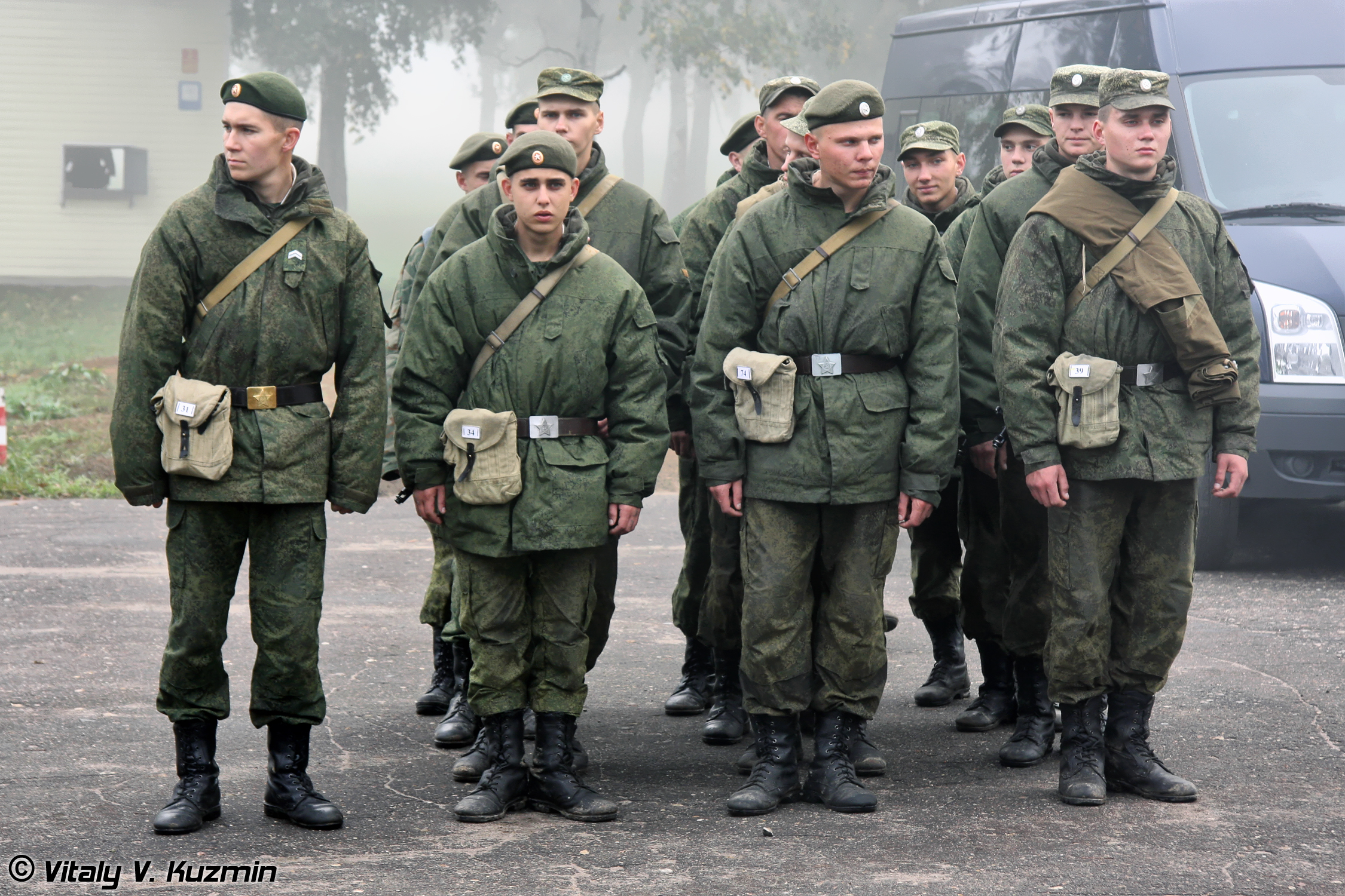 Soldiers from 5th separate motor rifle brigade in "The Commonwealth Warrior 2011".